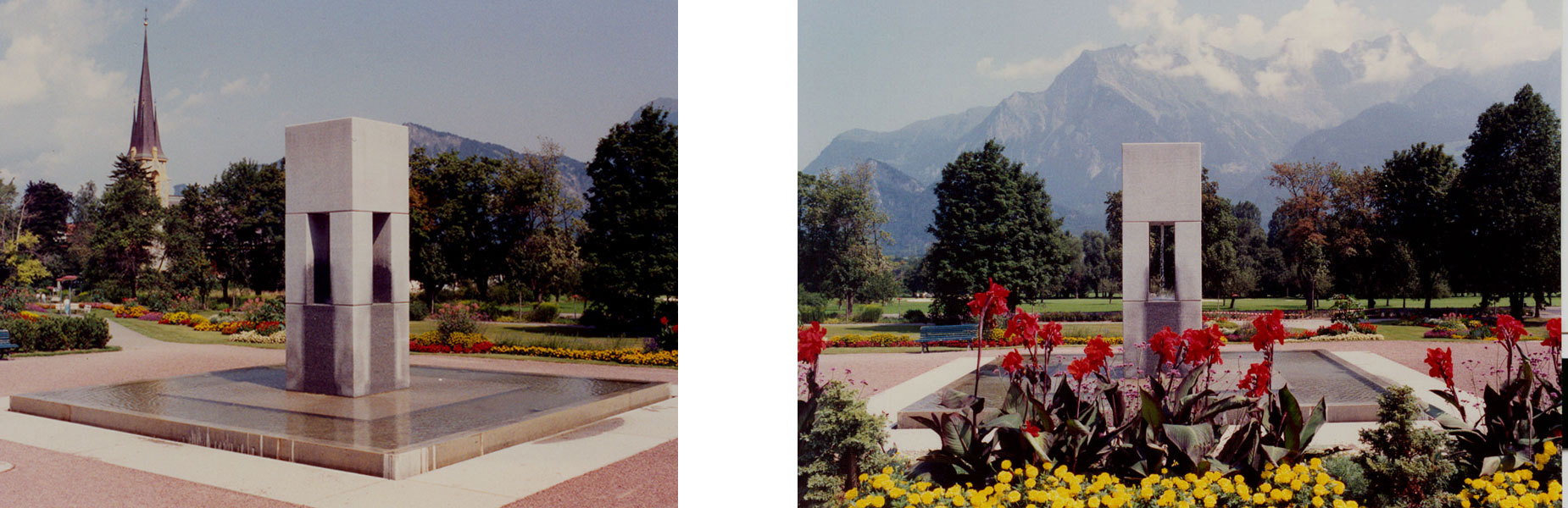 Artist :Gianfredo Camesi Title : Sculpture fontaine à Bad Ragaz, Switzerland 1990.